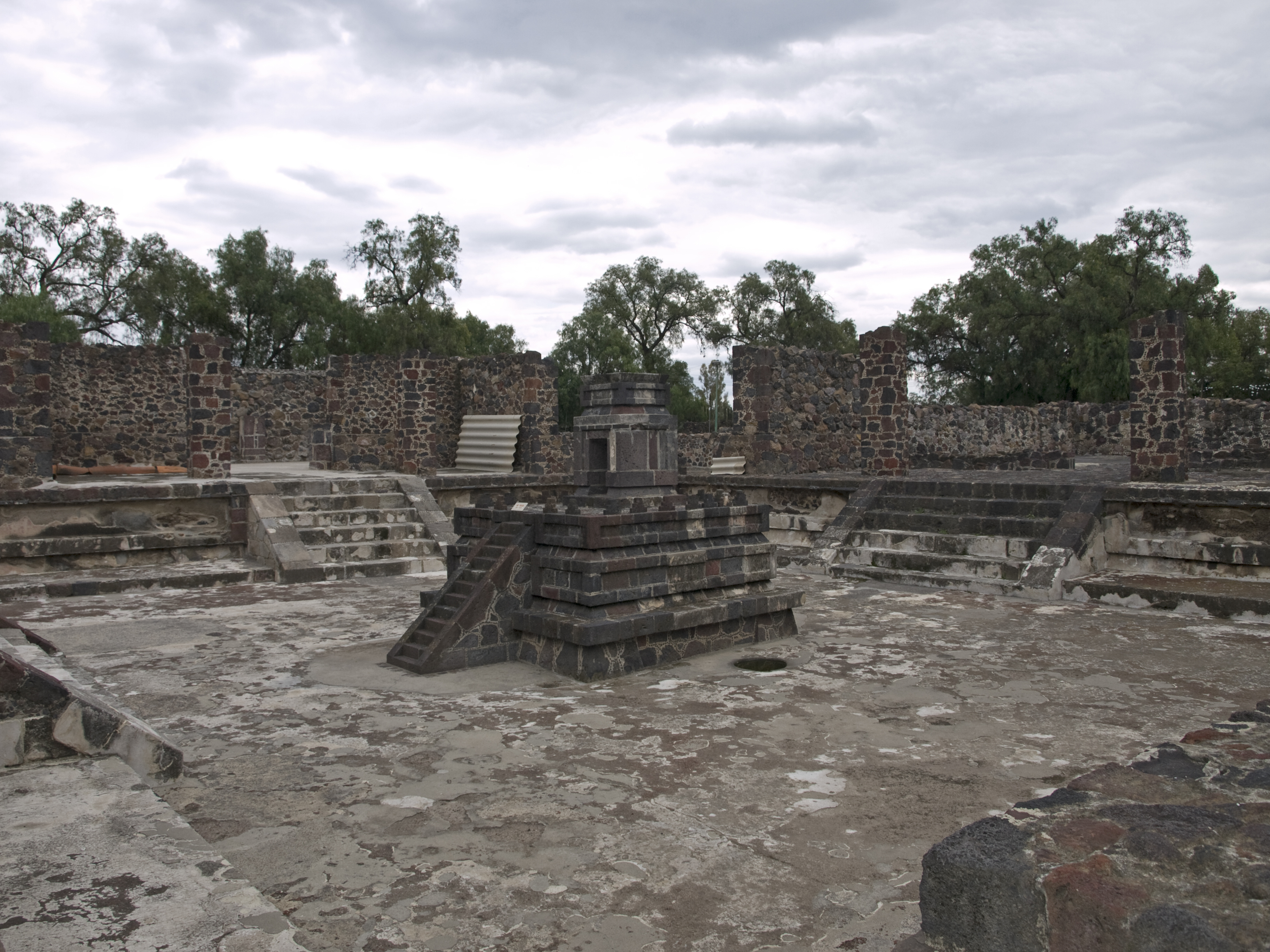 The site of the Atetelco Compound